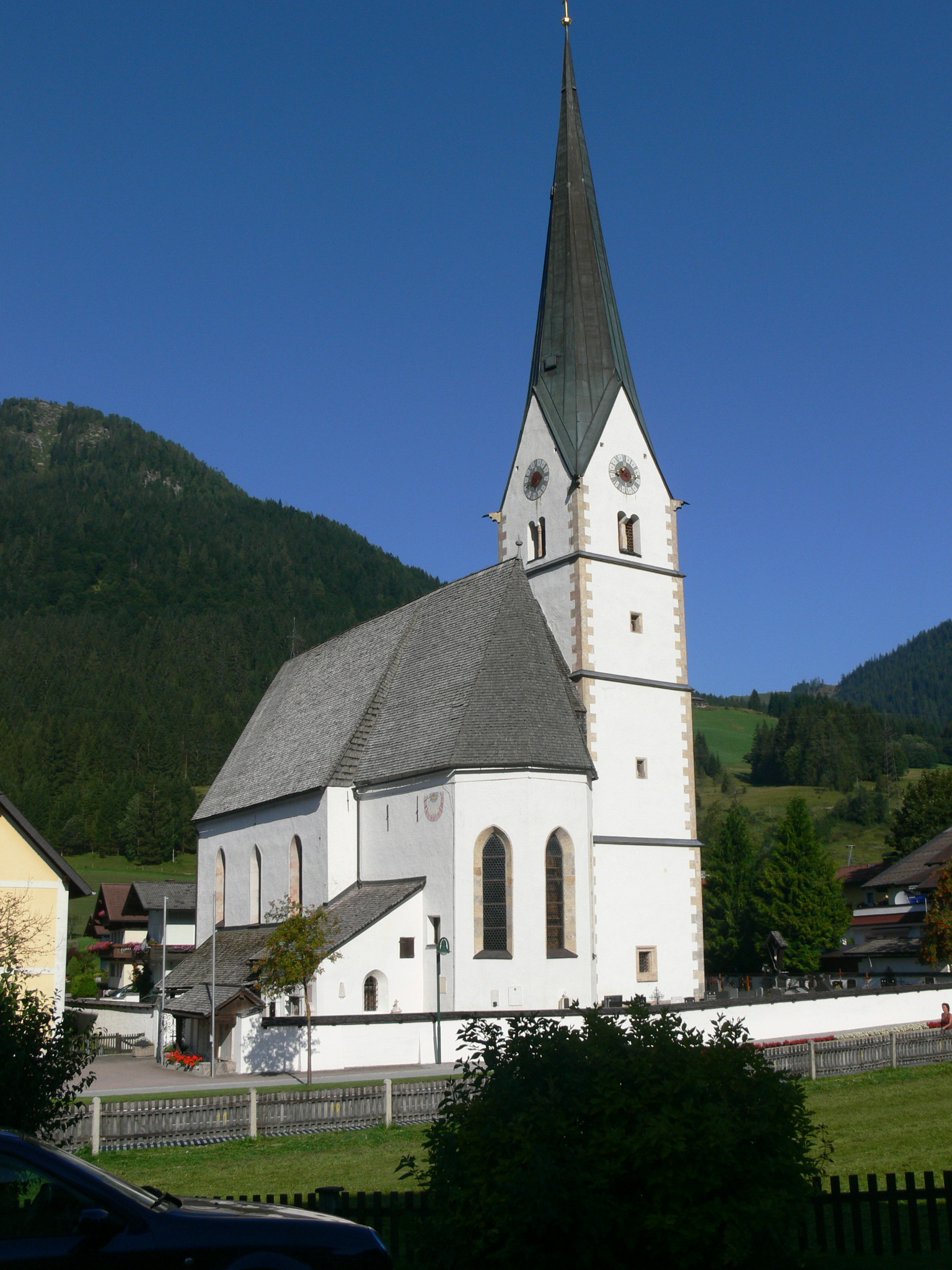 Sankt Martin im Tennengebirge ( Salzburg ). Saint Martin parish church: Exterior.